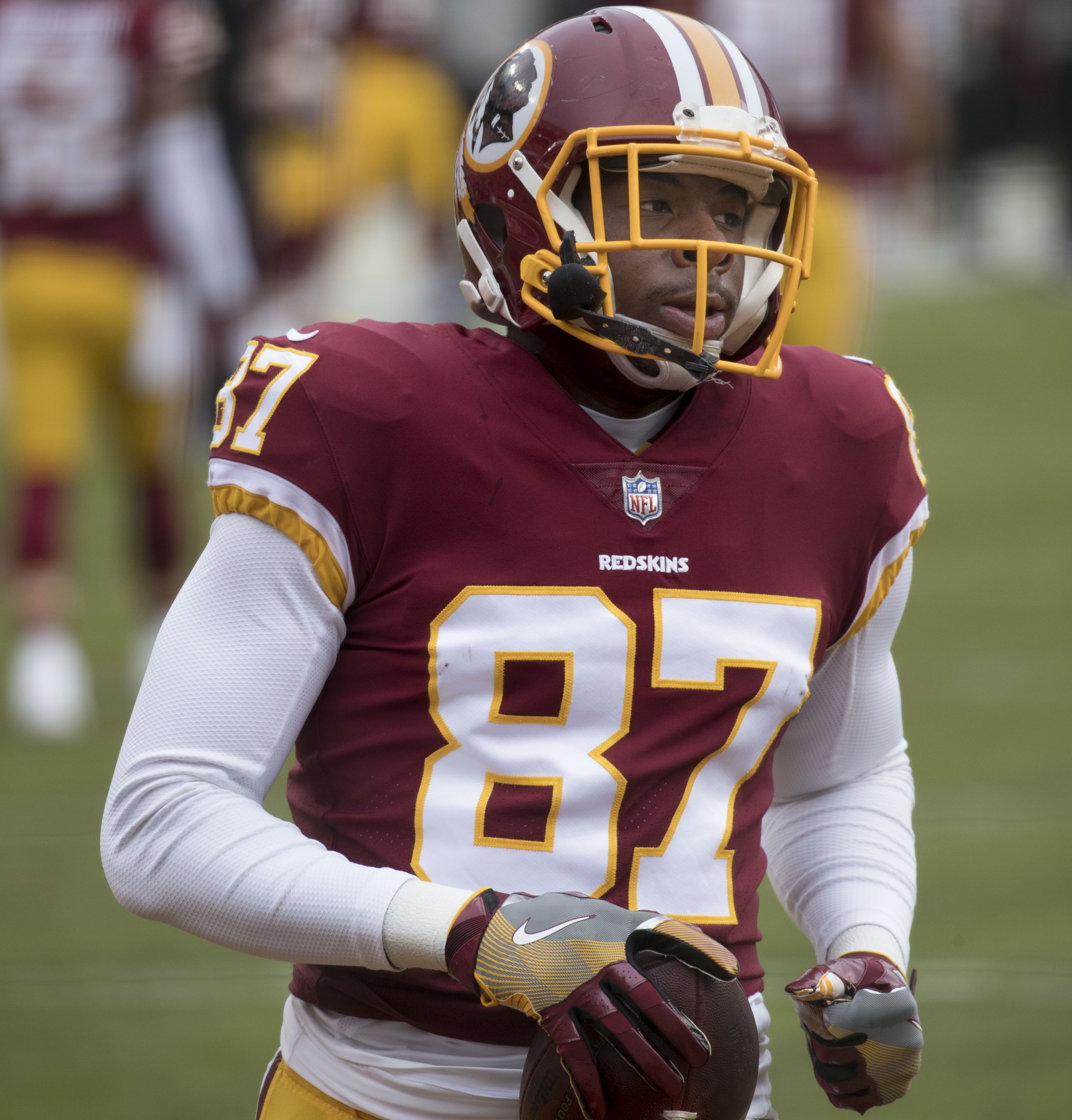 Washington Redskins tight end, Jeremy Sprinkle, in a game against the Arizona Cardinals on December 17, 2017.